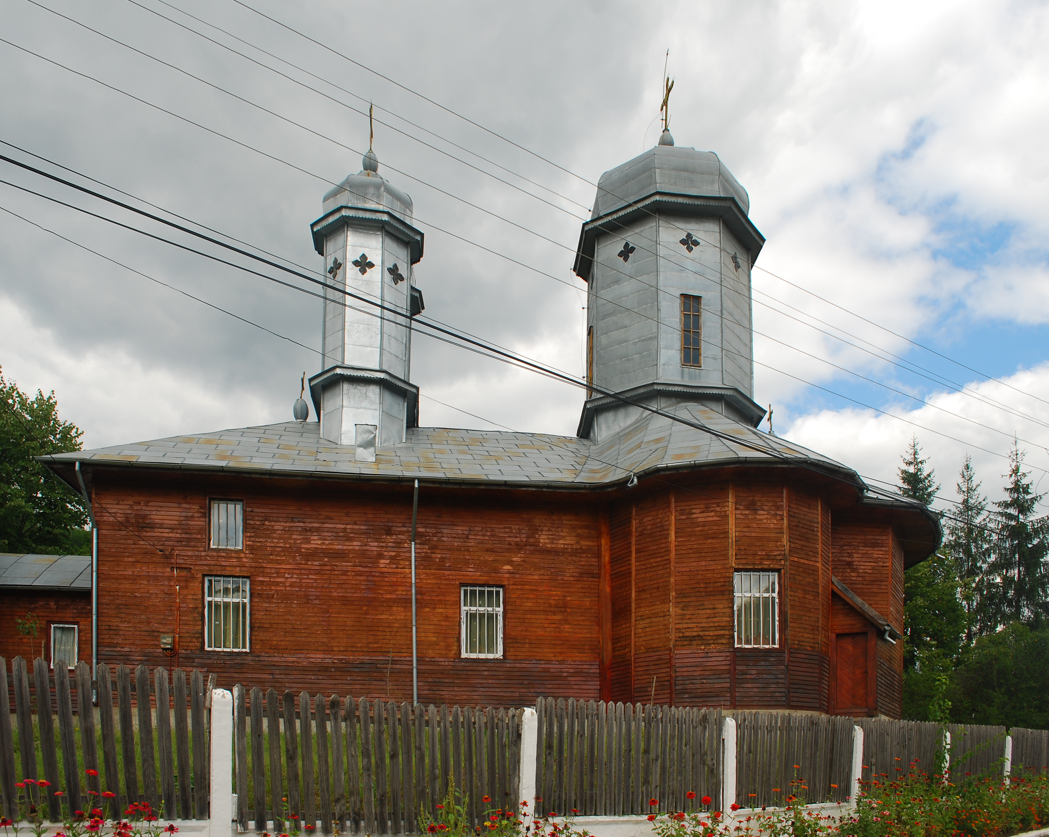 Archangels' church in Bozioru, Buzău County, Romania 01